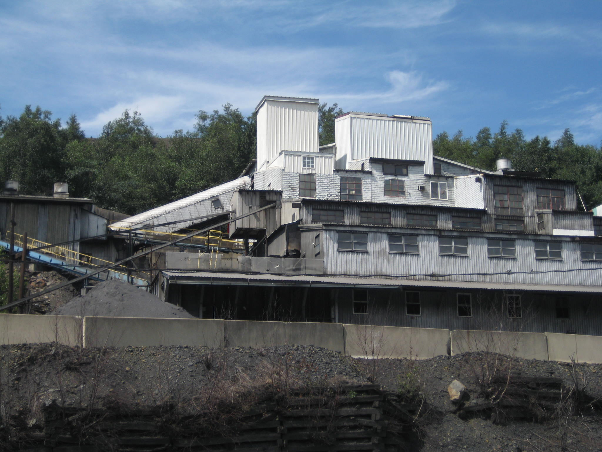 St Nicholas Coal Breaker, Pennsylvania Route 54, Mahanoy City, PA 17948 This modern coal processing plant or modern coal breaker (successor) is a fraction of the size of old tech massive breakers which once towered up to eleven stories above the ground. View up to plant above the Admin building... This is an Ultra-High-grade Anthracite graded Coal company operating a modern breaker or Coal processing plant. A Mountain Top strip mine operates from the rear of the mountain, Dump hauler mega-dump trucks bring coal down to chute shown in this series, then semi-dumpers and 15-20 ton dump trucks shuffle the coal across the street where Rail road hopper cars are loaded, or also to other destinations by highway transport.